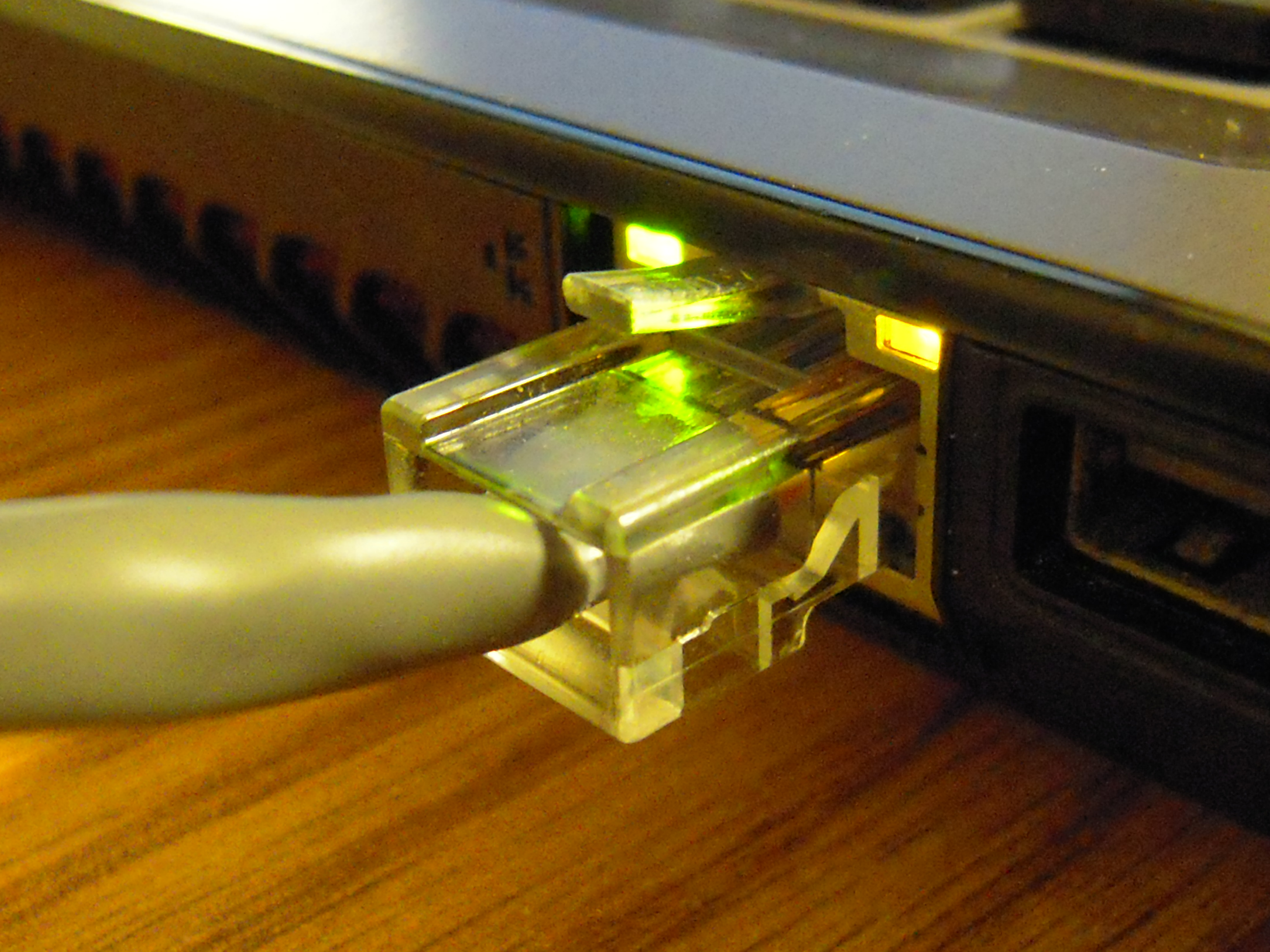 A laptop with Ethernet connection